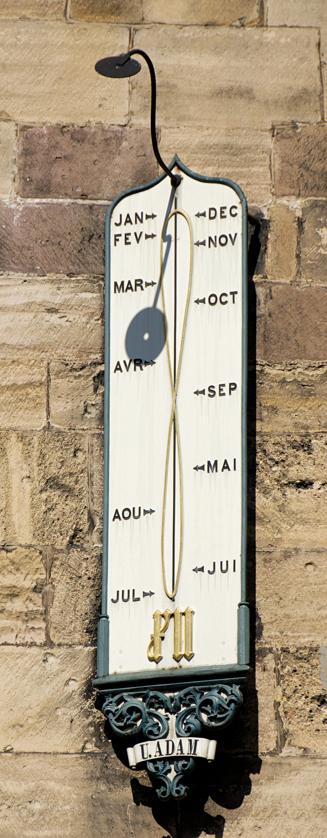 Noon-mark by Urbain Adam (1815–1881), church St. Martin in Colmar, France.